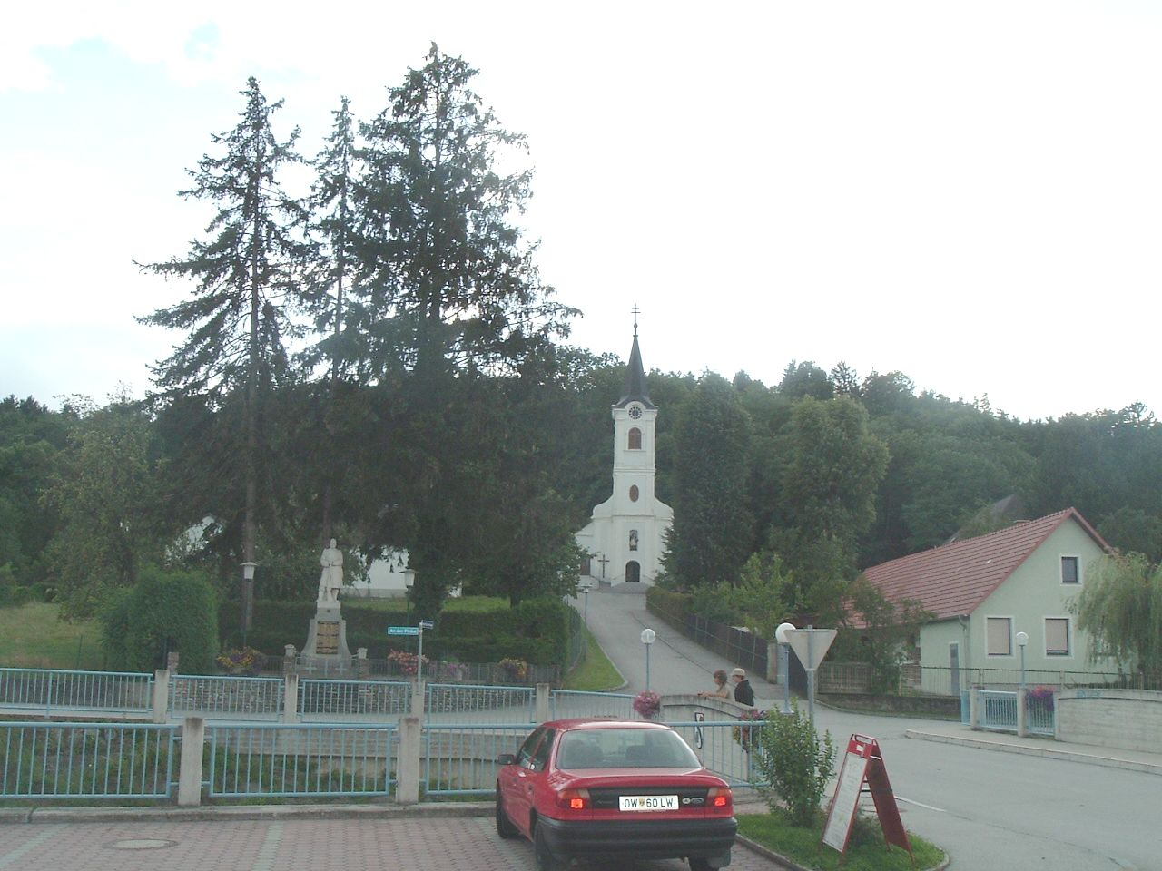 Jabing (Vasjobbágyi), Burgenland